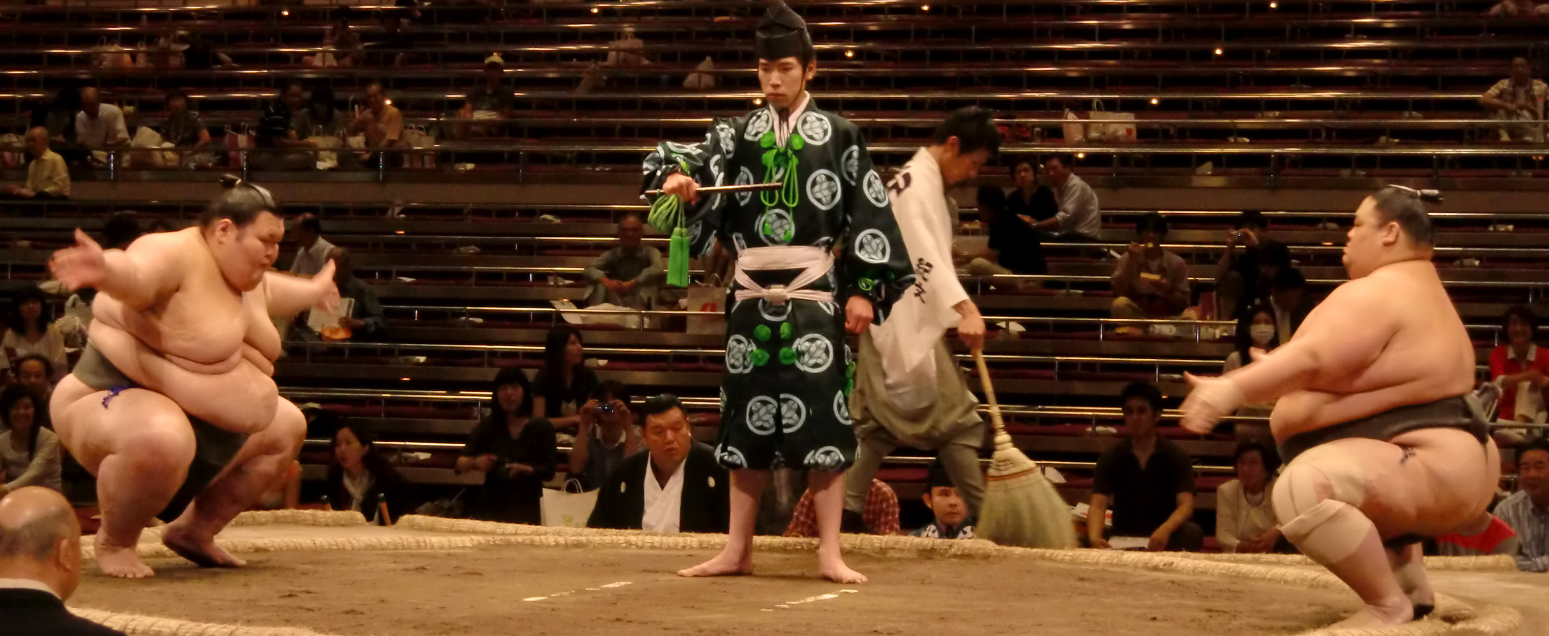 Taken by myself at a recent tournament. Orora and Kainowaka prepare to face each other on Day 11 of the September, 2009 honbasho held at the Ryugoku Kokugikan